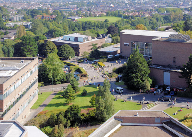 University of Exeter, Streatham Campus. The view from the top floor of 1004061, looking SE down Stocker Road. Left Geoffrey Pope Building (Biosciences), straight ahead Library and shopping centre, right Great Hall and 1004093. In the distance mainly in SX9293) are left Lafrowda and Cornwall House, centre Exeter Cricket Club.